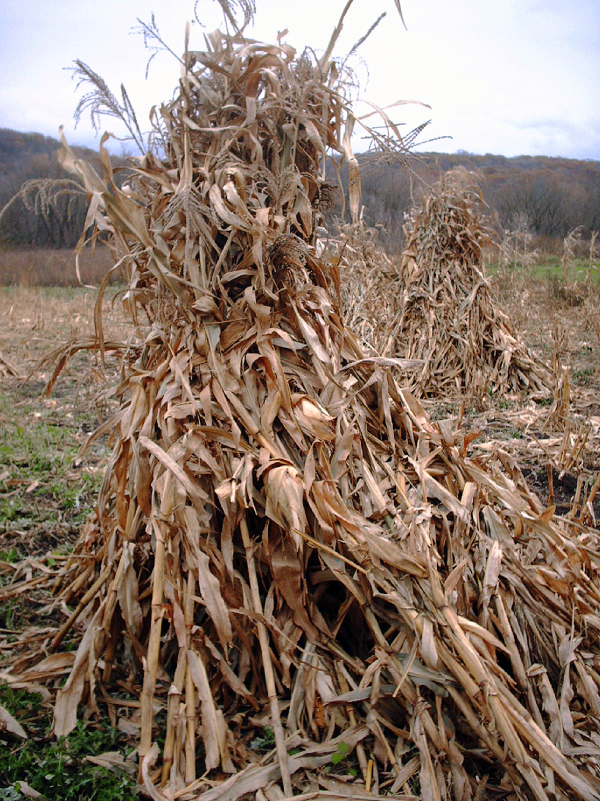 Photo I took 2006-10-21 of traditional corn shocks (bundled maize) in Forestville, Minnesota. CC & GFDL.